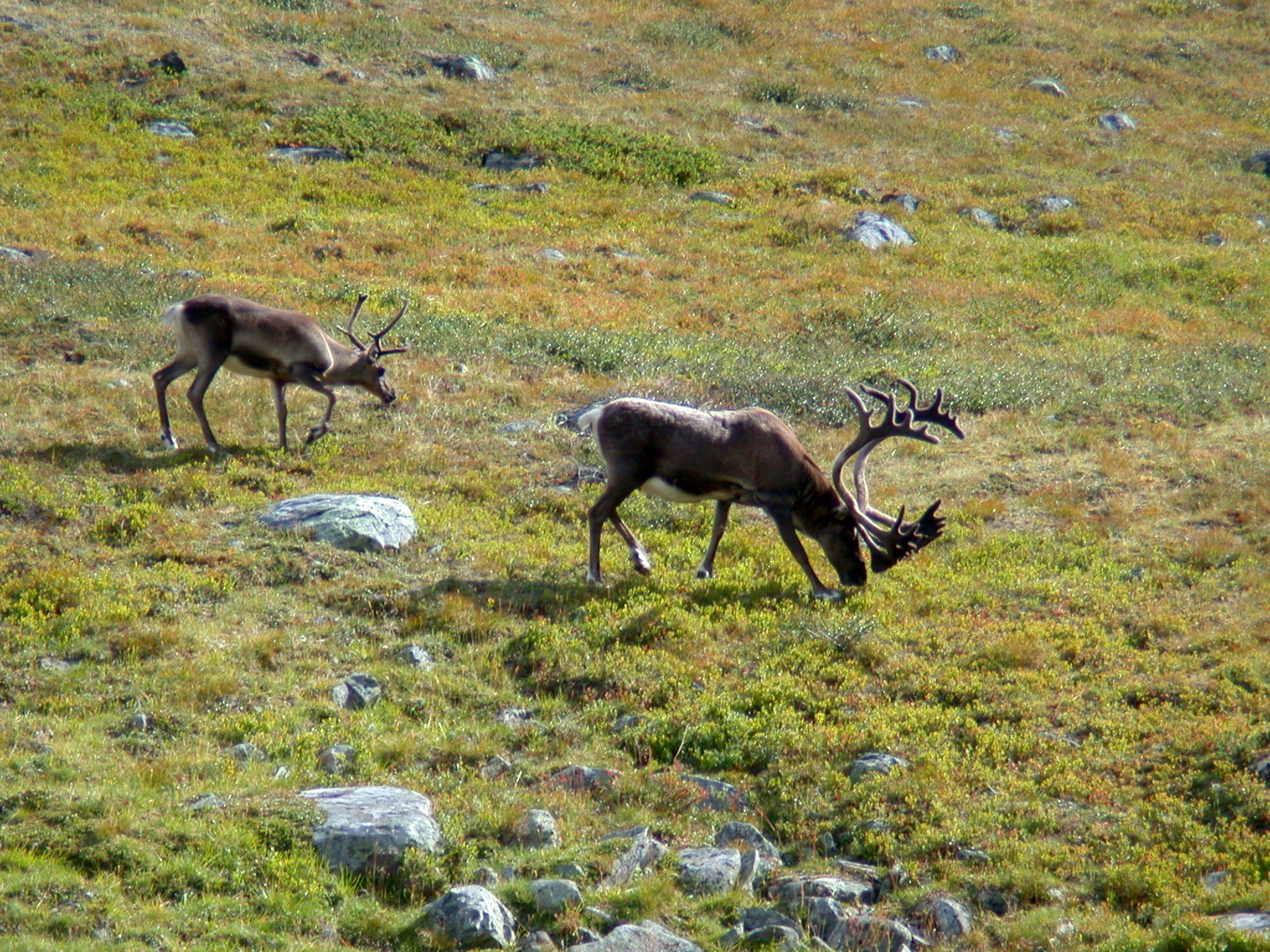 Reindeers in Abisko national park